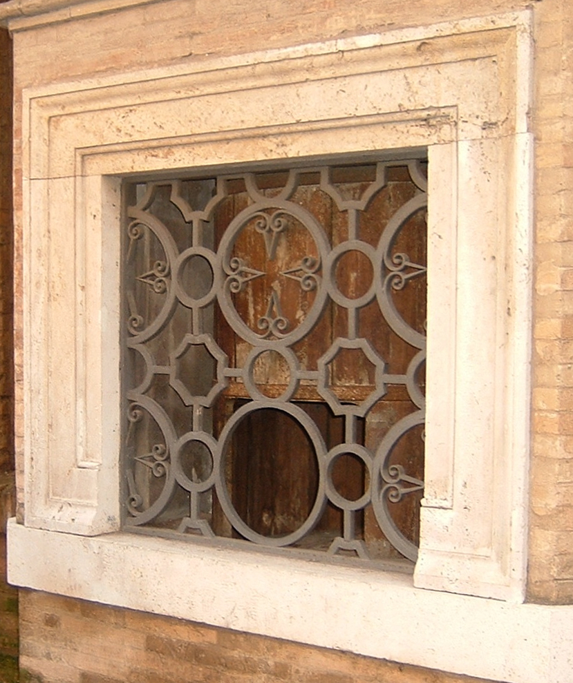 Baby hatch at the Ospedale Santo Spirito in Sassia, Rome.